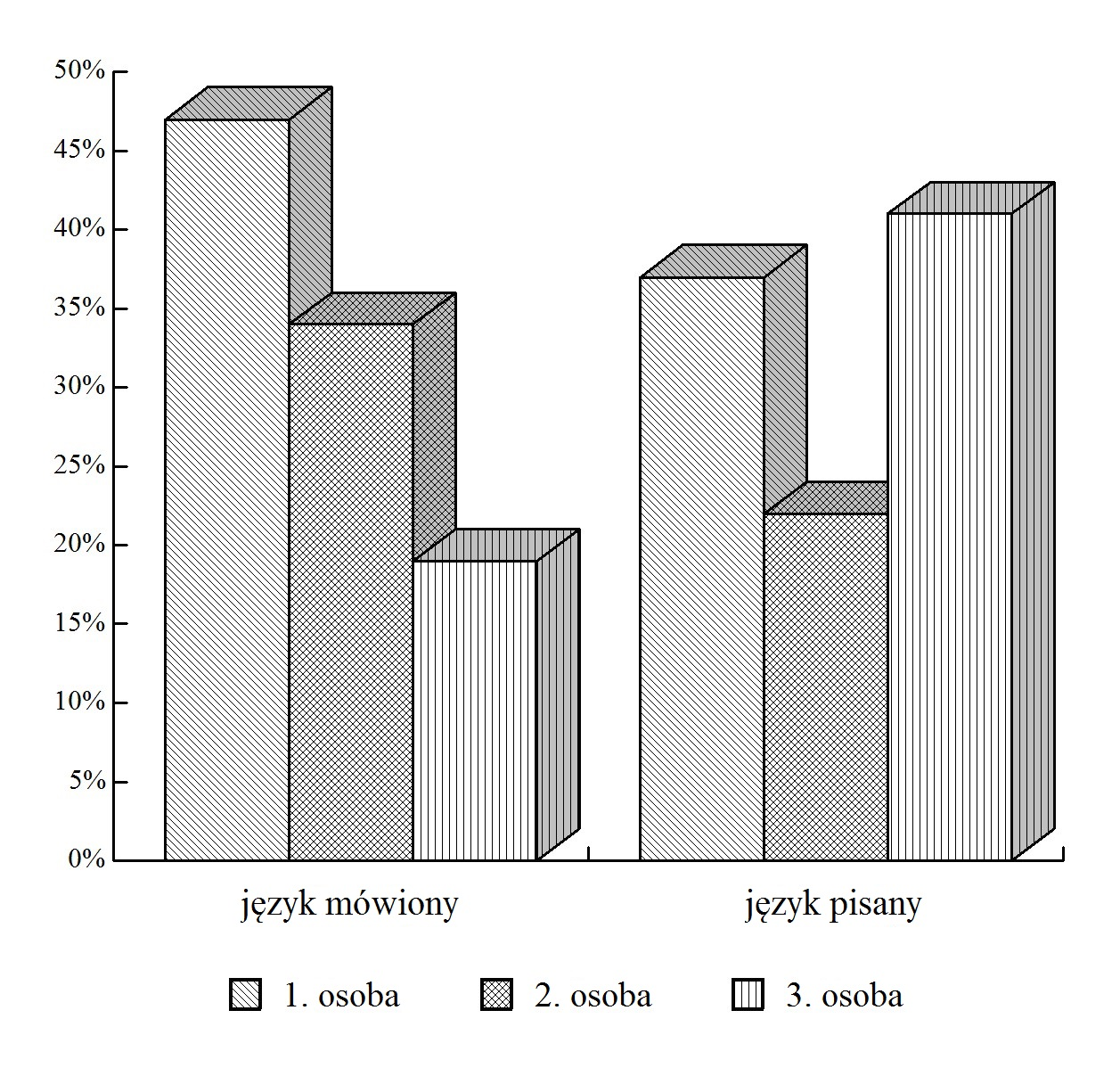 Polish translation of the file File:Personal pronouns.jpg